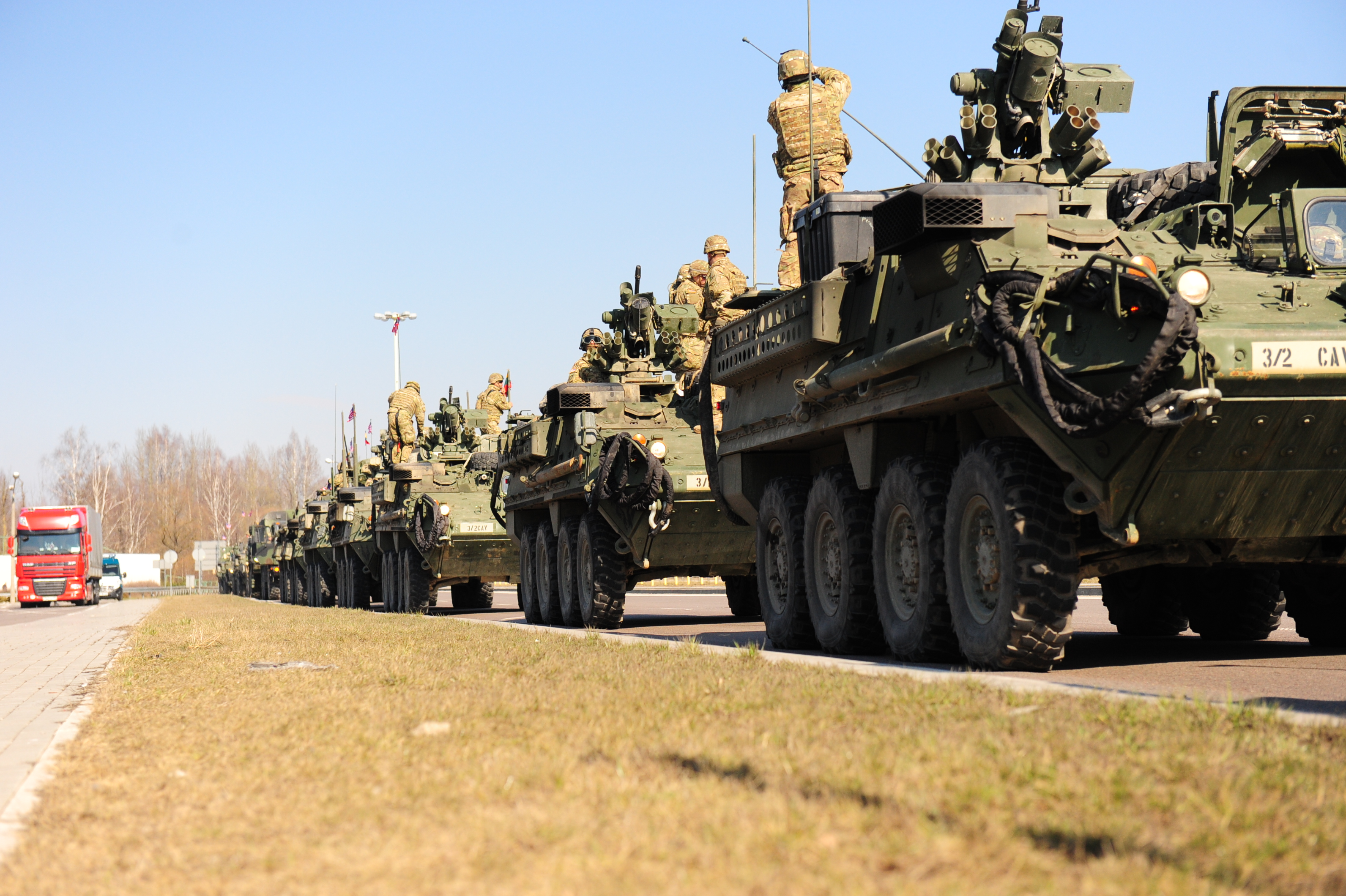 The road march, known as “Dragoon Ride” that 3rd Squadron, 2nd Cavalry Regiment will conduct is the capstone event of their latest participation in Operation Atlantic Resolve (OAR). As part of their OAR mission, the squadron has spent the last few months living and training alongside allied forces in Estonia, Latvia, Lithuania, and Poland. Since Army Europe’s Land Forces OAR mission began in April 2014, it has focused on improving the ability of NATO allies to work and operate together. This road march is a demonstration of that improved ability. It will traverse more than 1,800 kilometers, cross five allied borders, and include the participation of each nation’s armed forces as the convoys travel across each country. For those participating in it, Dragoon Ride is a unique opportunity. Soldiers and their leaders will have numerous opportunities to engage with local communities along the route and deepen their appreciation for the cultural diversity within the alliance. It will also allow units to test their maintenance and leadership capabilities while simultaneously providing a highly-visible demonstration of our commitment to our NATO allies, and the ability of alliance member-states to work in close cooperation to allow military forces to move freely across allied borders.